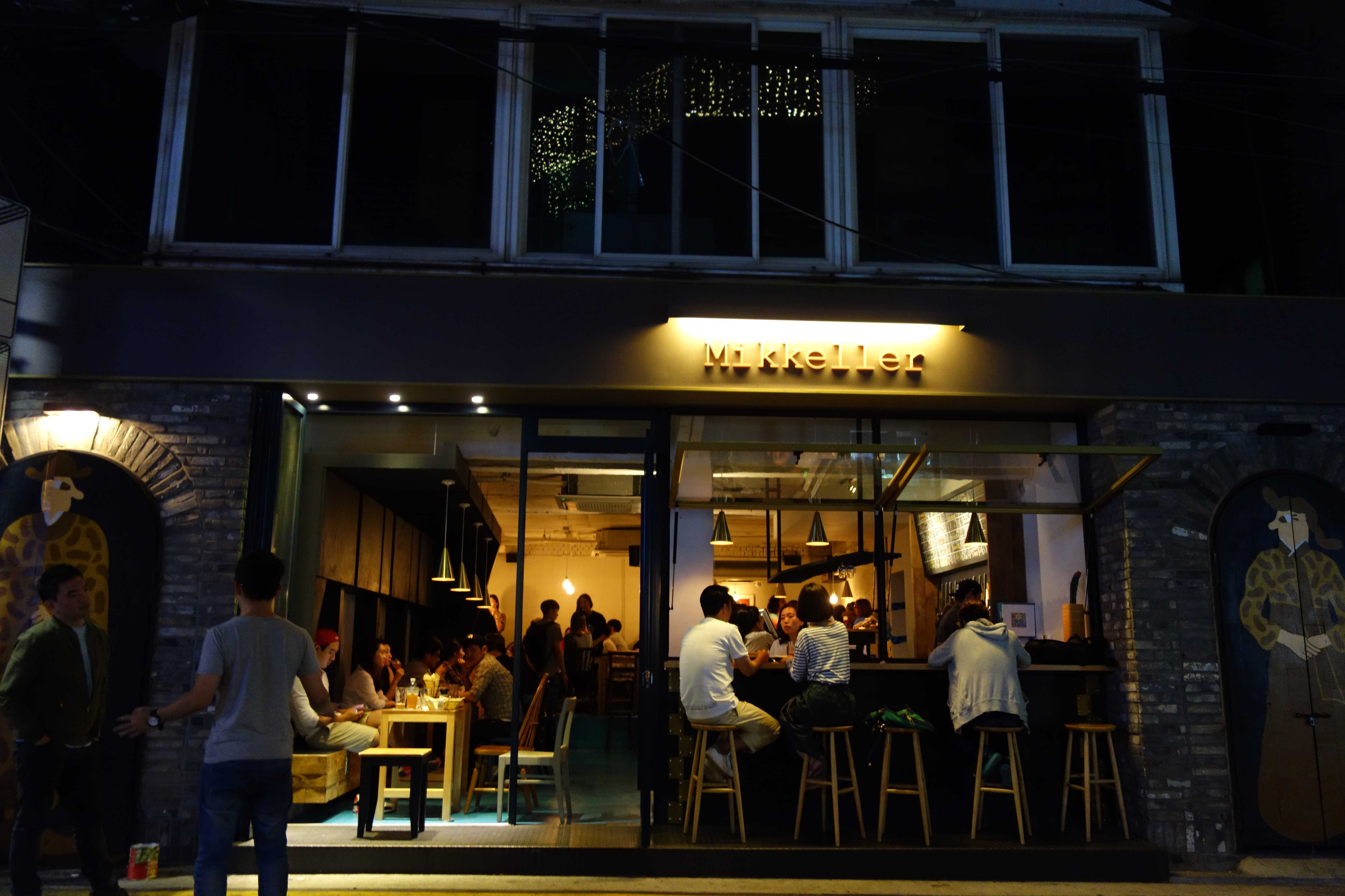 Mikkeller Bar in Seoul, South Korea.